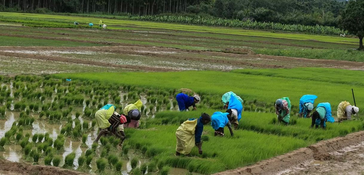 Rice planting in the fields of wayanad.Taken near Mathamangalam.